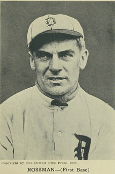 Portrait of Claude Rossman published by Detroit Free Press 1908